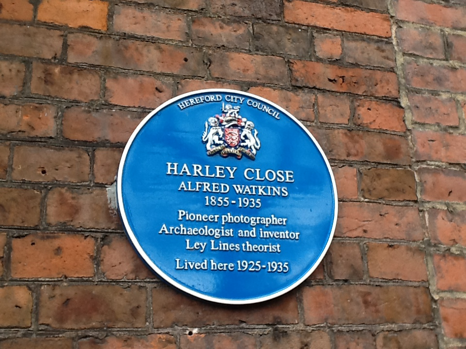 Commemorative plaque for Alfred Watkins